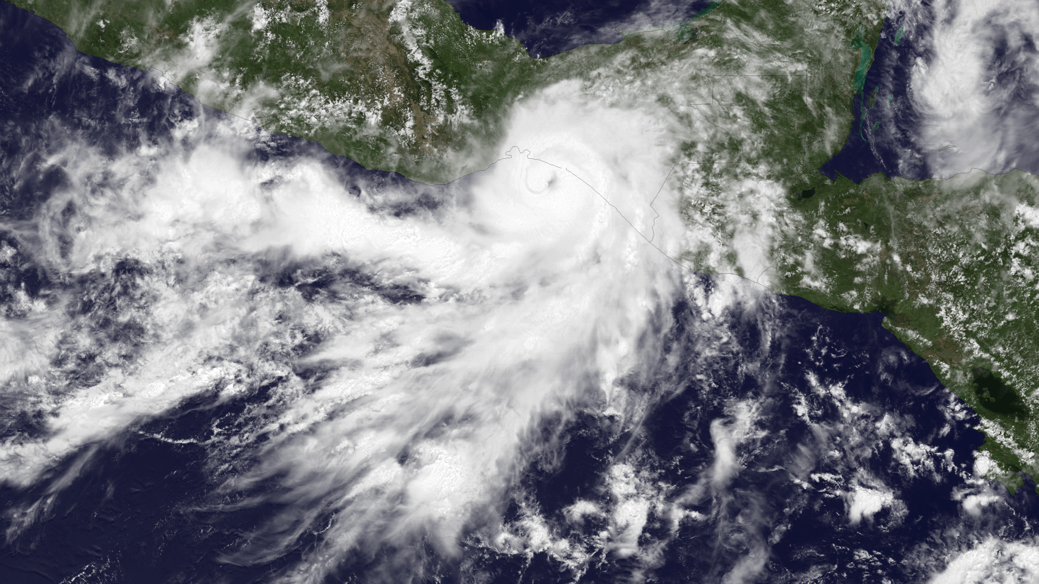 After rapid intensification overnight, Hurricane Barbara is poised to cross the Mexico coastline near Tonala in Chiapas State. Weakening should be rapid later today and tonight as the cyclone interacts with the mountainous terrain of southeastern Mexico. Barbara is expected to produce total rain accumulations of 4 to 8 inches over eastern Oaxaca and western Chiapas with isolated amounts of 12 inches possible. These rains could cause life-threatening flash floods and mud slides. This image was taken by GOES East at 1815Z on May 29, 2013.